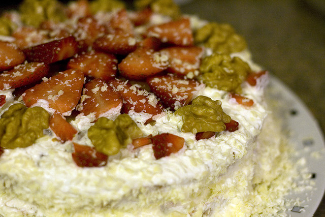 This is the cake my friend Sarah made. It tastes as good it looked.